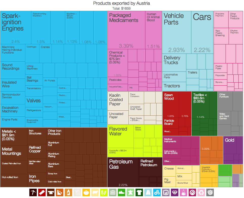 A proportional representation of Austria's exports. Using the HS4 product classification.